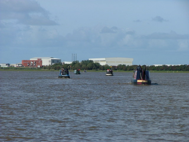 Confluence of the river Ribble and River Douglas. Canal boats rounding Asland lamp on their way along the Ribble Link BAE Warton in the background